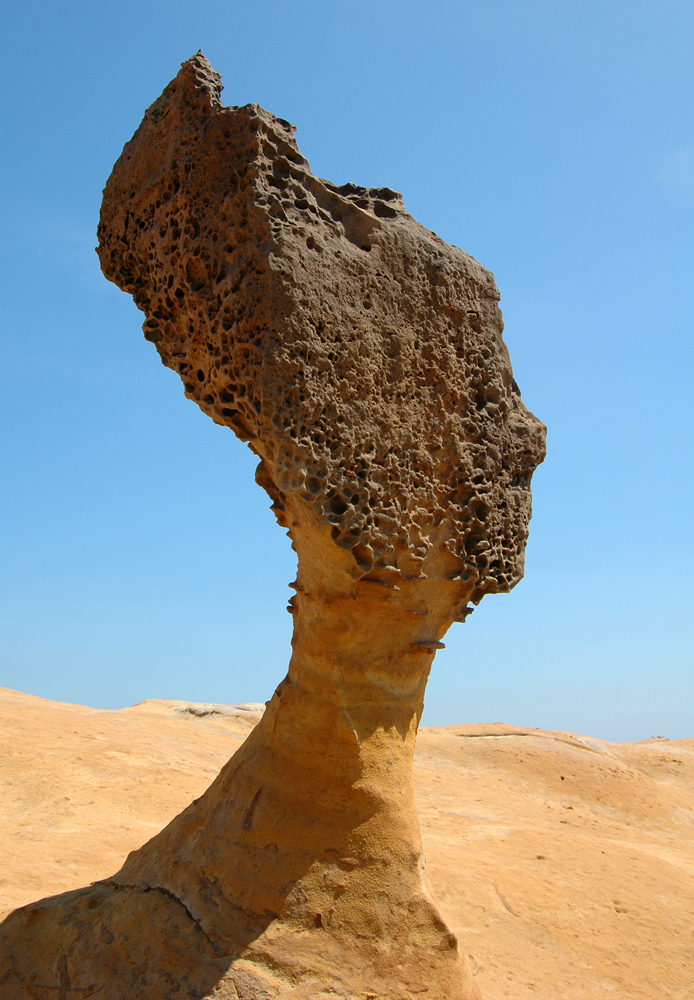 Queen's Head in Wanli, Yehliu Promontory, in northern Taiwan.